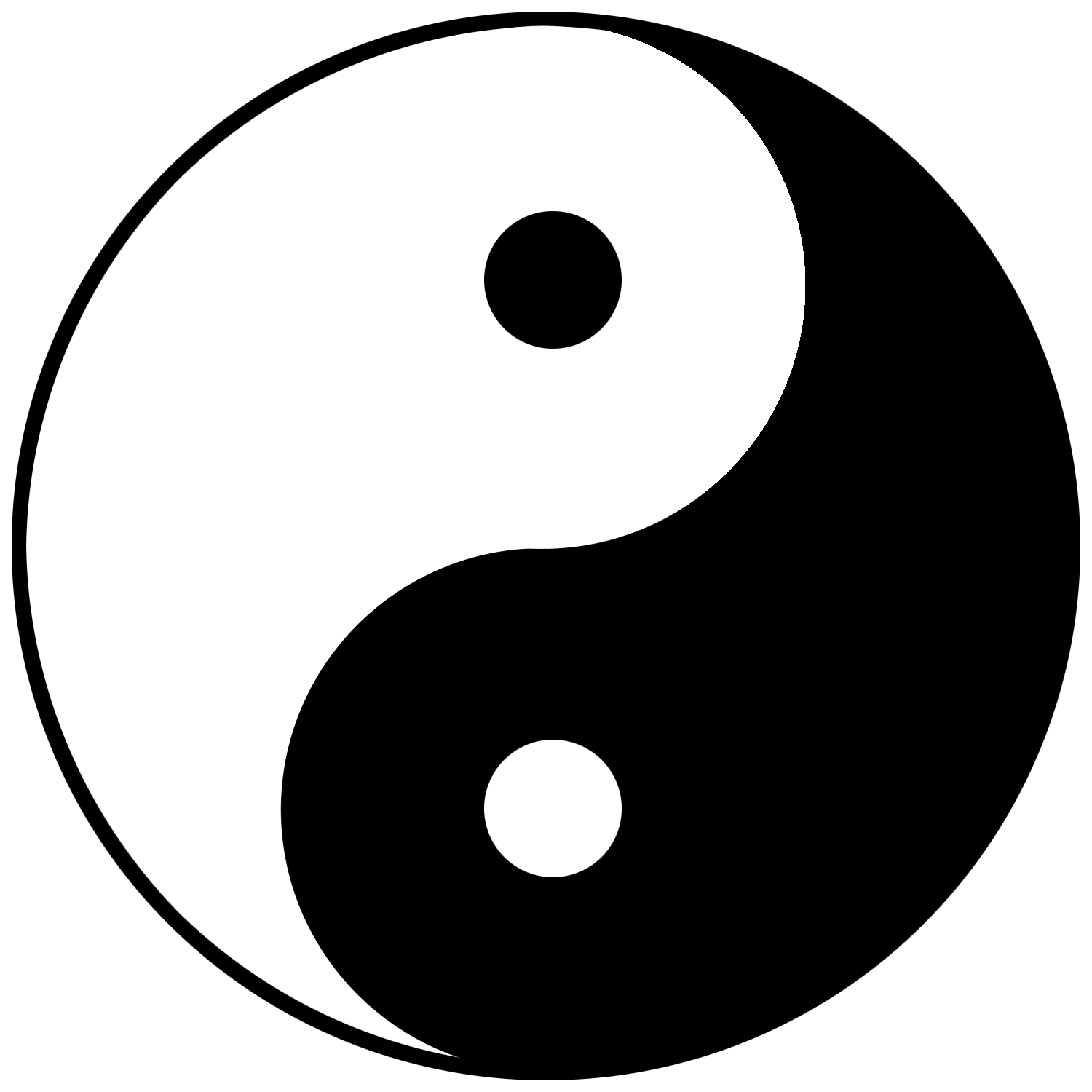 Yin Yang Sign